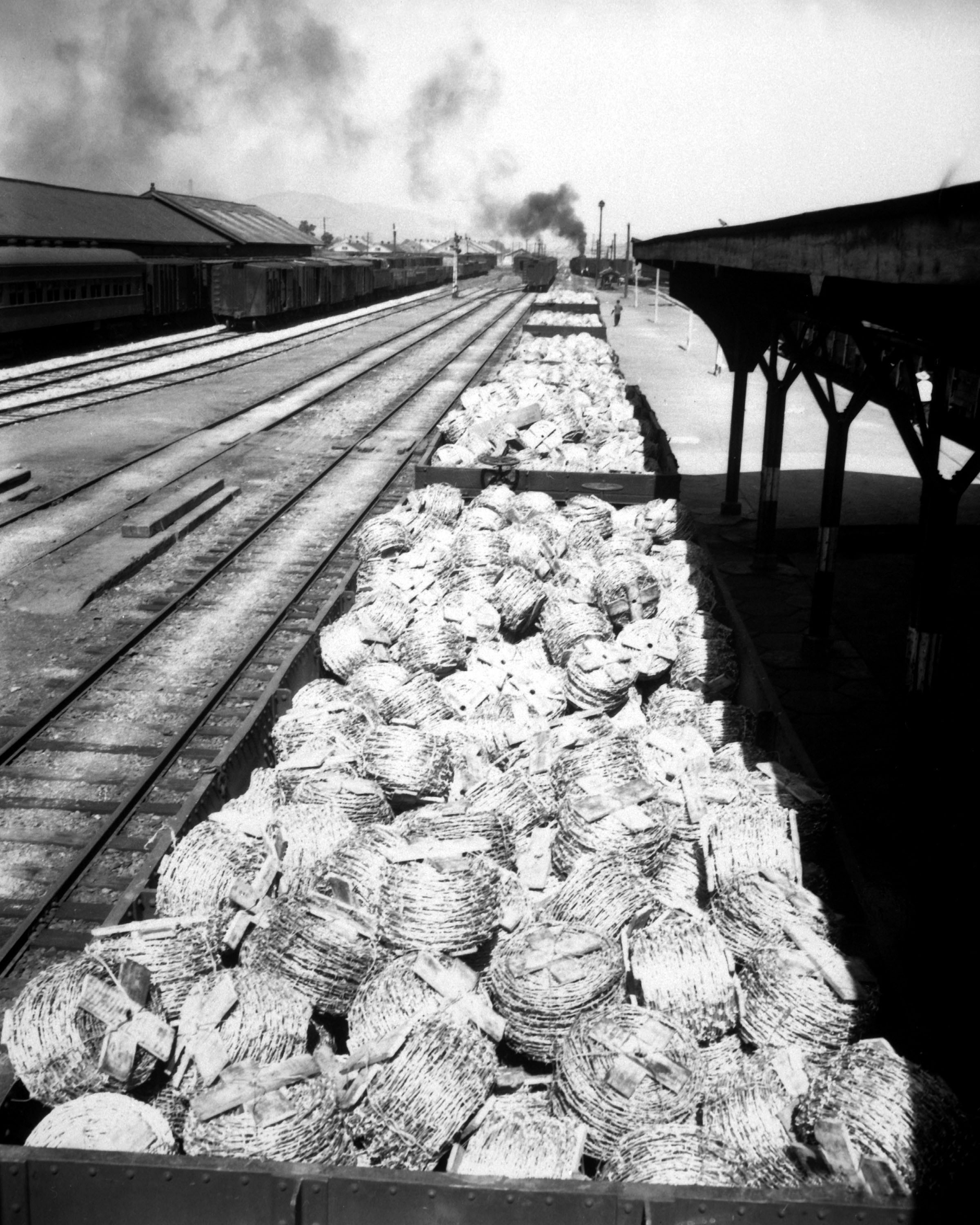 Railroad cars loaded with barbed wire at Taegu RTO (Railway Transportation Office), Korea. NARA FILE #: 111-SC-344307. WAR & CONFLICT BOOK #: 1404